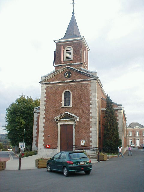 church of Minerie (Thimister) Walon: eglijhe del Minreye (portrait saetchî pa L. Mahin).